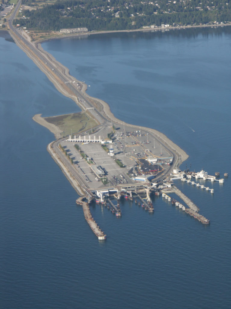 BC Ferry terminal at Tsawwassen, as seen from a float plane. The M.V. Bowen Queen is visible in Berth 1. Photograph uploaded by copyright owner under: Attribution must be given to photo-tips.ca.